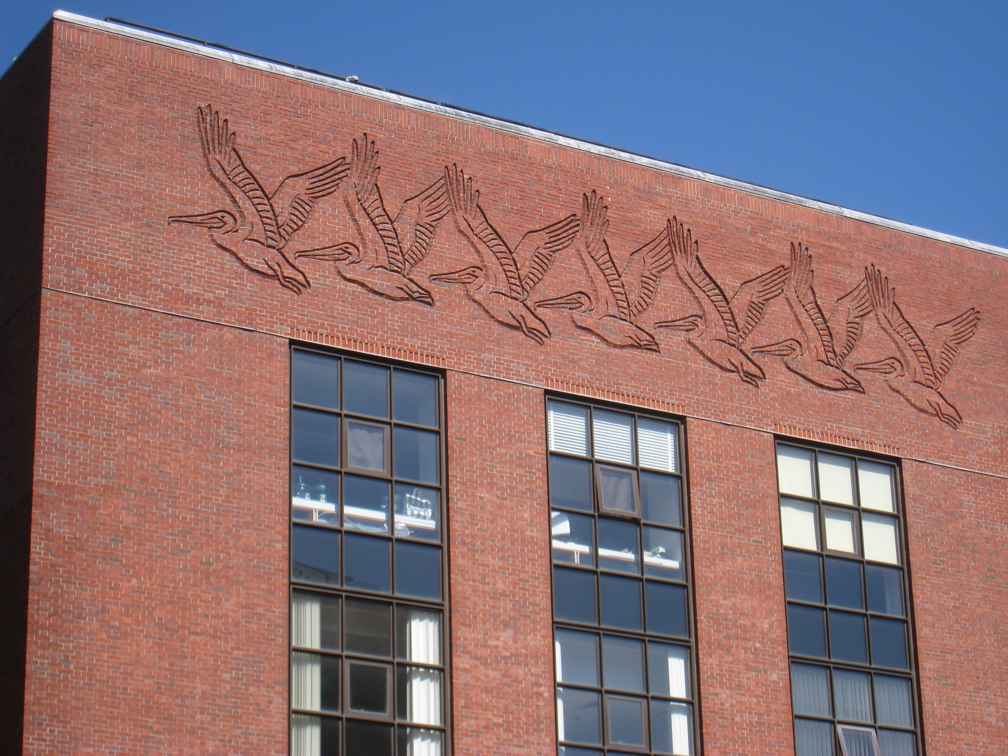 Building detail, Harvard University, Cambridge, Massachusetts, USA.